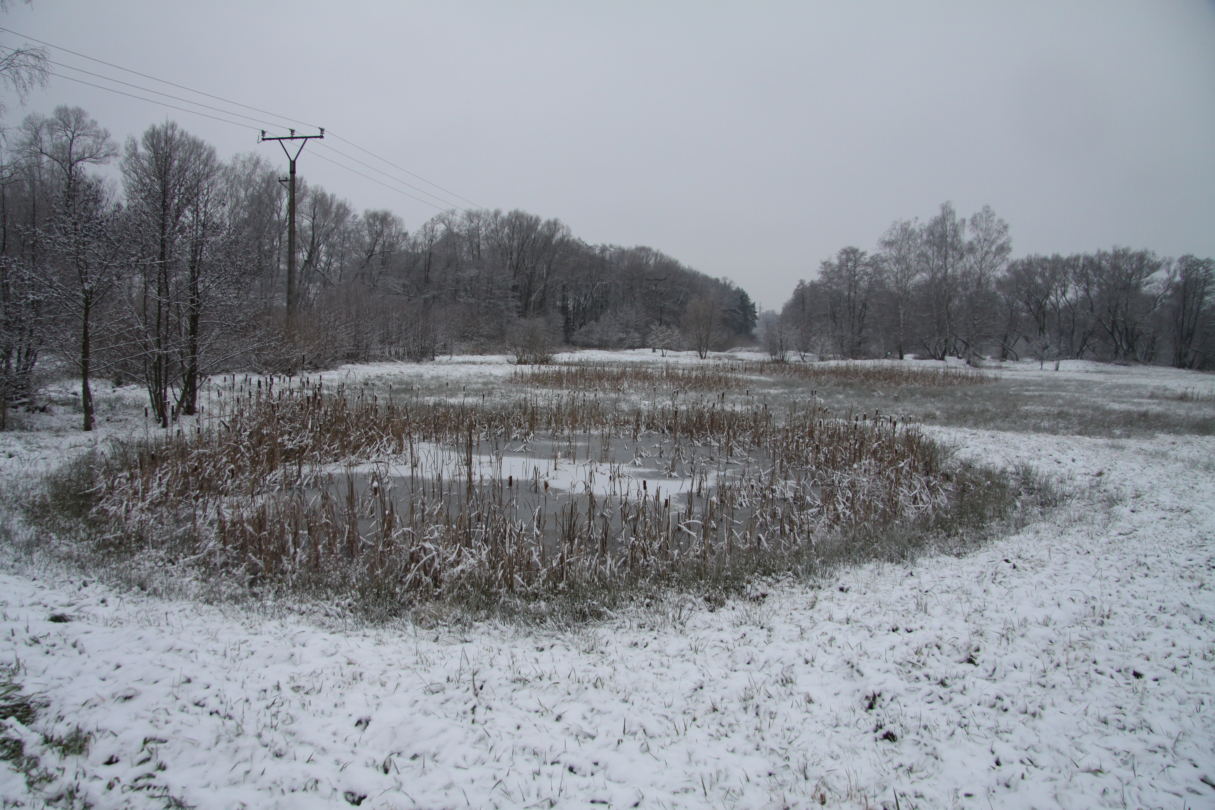 Natural monument Tůně u Hájské near Hájské village, Strakonice District, Czech Republic